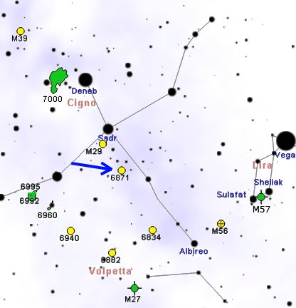 NGC 6871